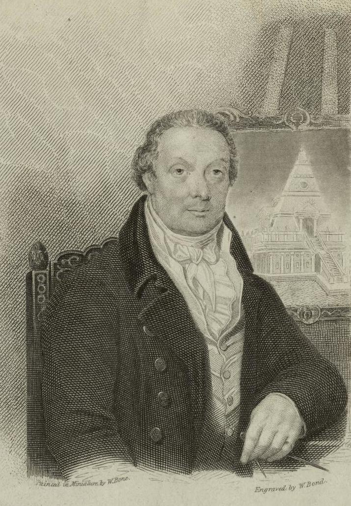 A portrait from the Welsh Portrait Collection at the National Library of Wales. Depicted person: William Capon – British artist